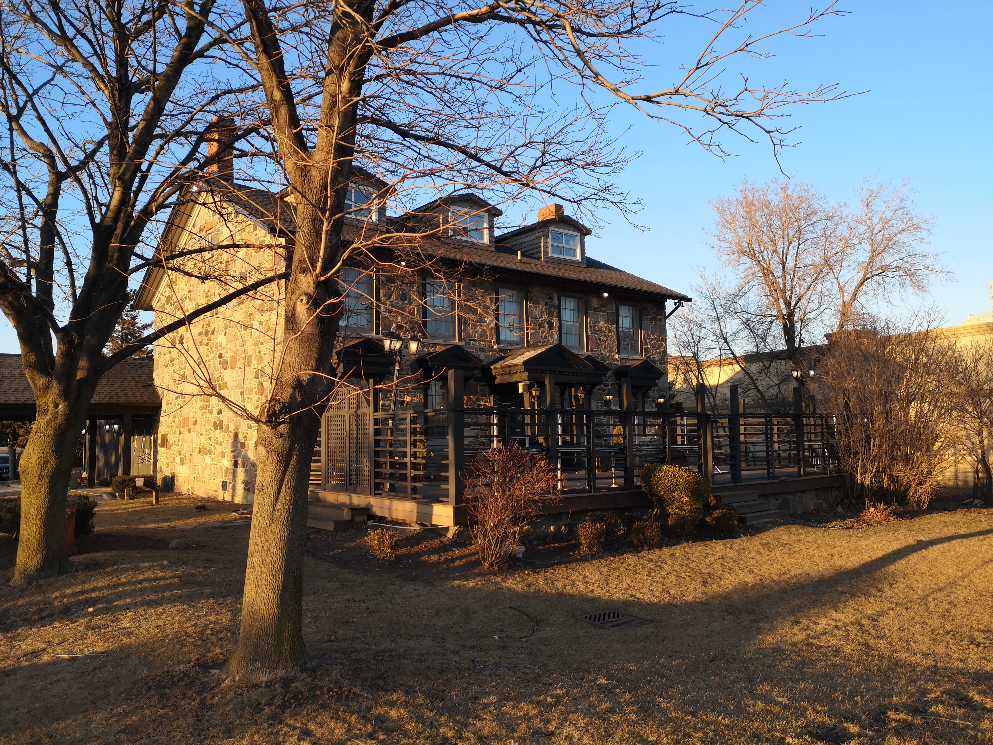 Scott House on 520 Progress Avenue, Toronto, Ontario, in March 2019. The building was erected in 1841, and was used to house a restaurant at the time the image was taken.